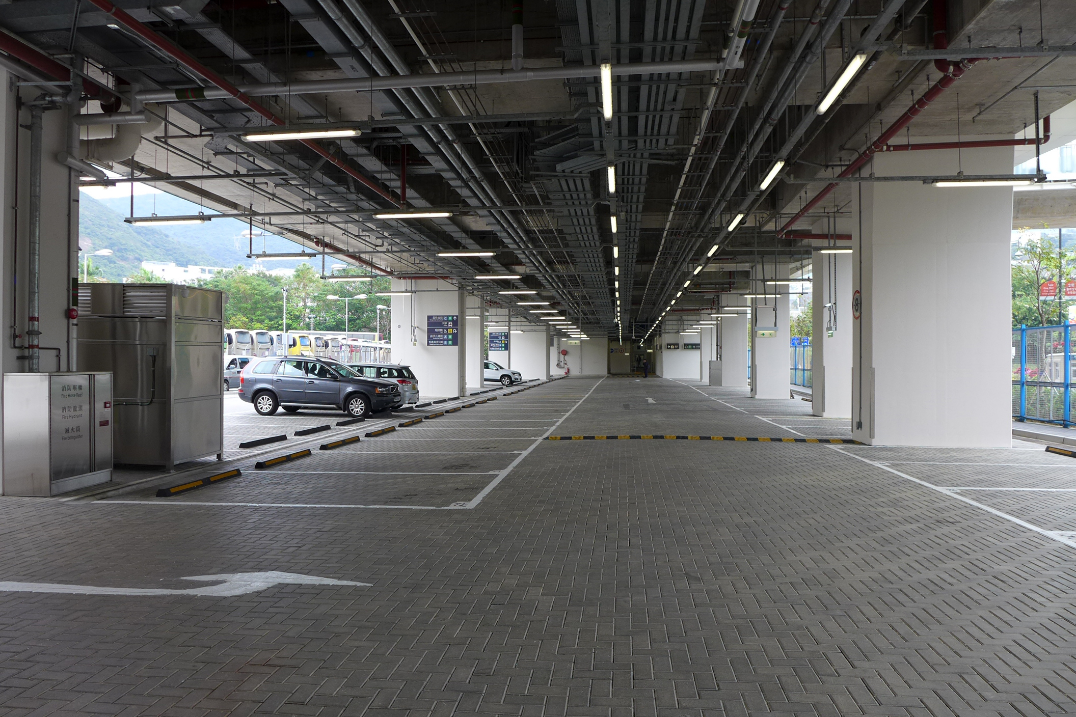 Ocean Park Station Carpark